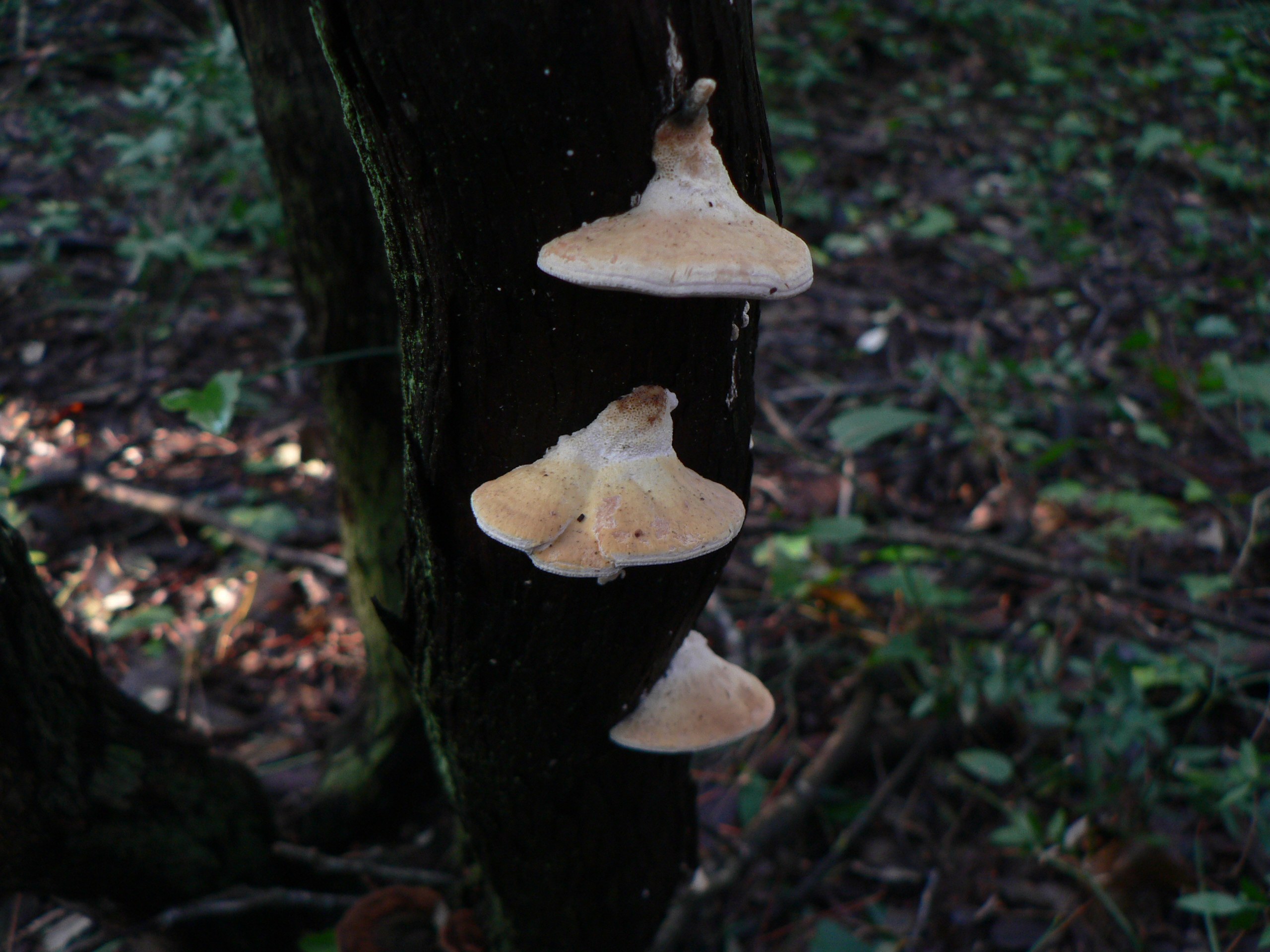 Name Perenniporia ochroleuca Family Polyporaceae